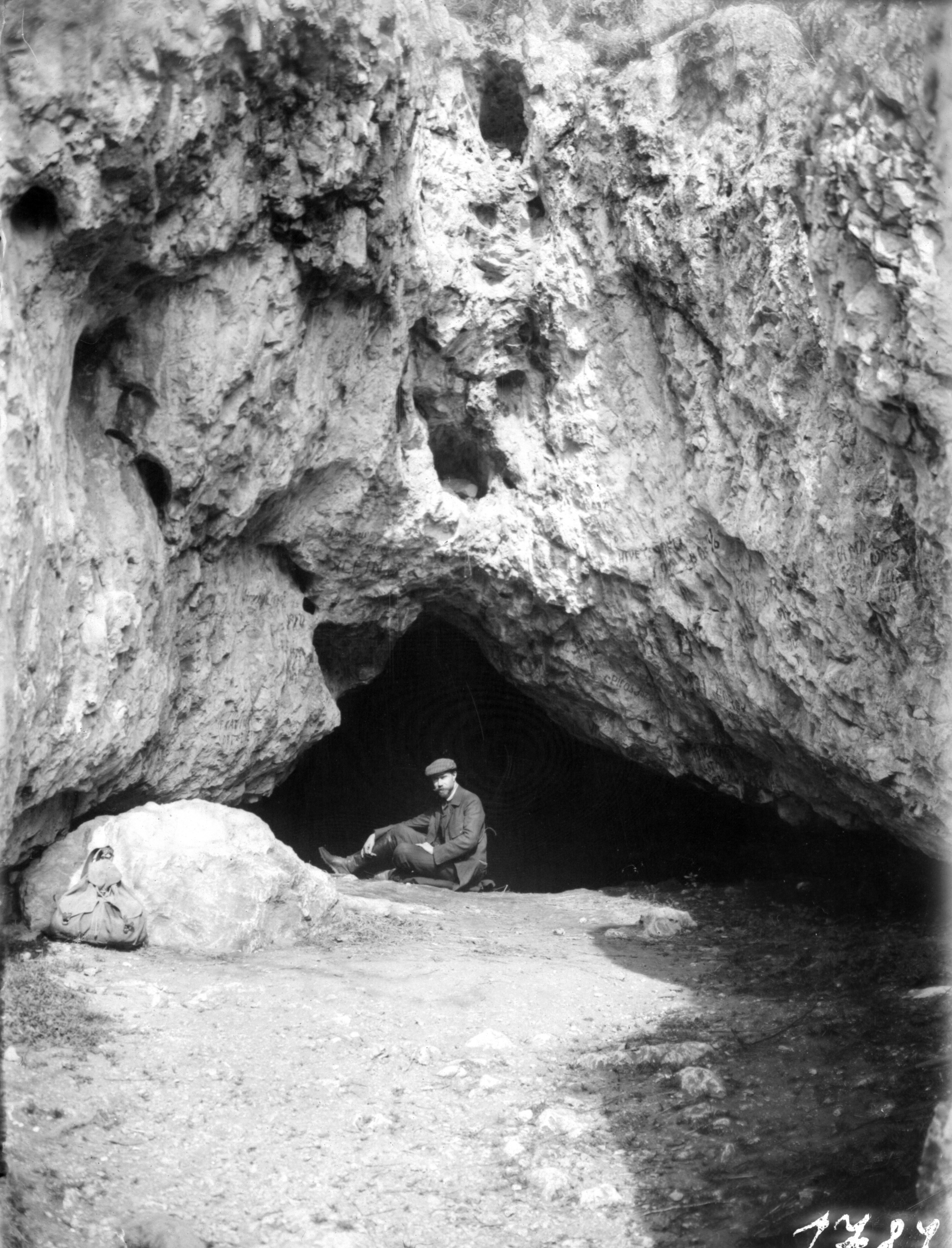 Entrance of Remete Cave in 1912 with Ottokár Kadić.